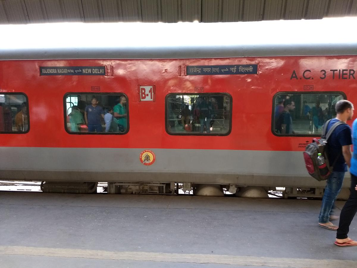 Train image